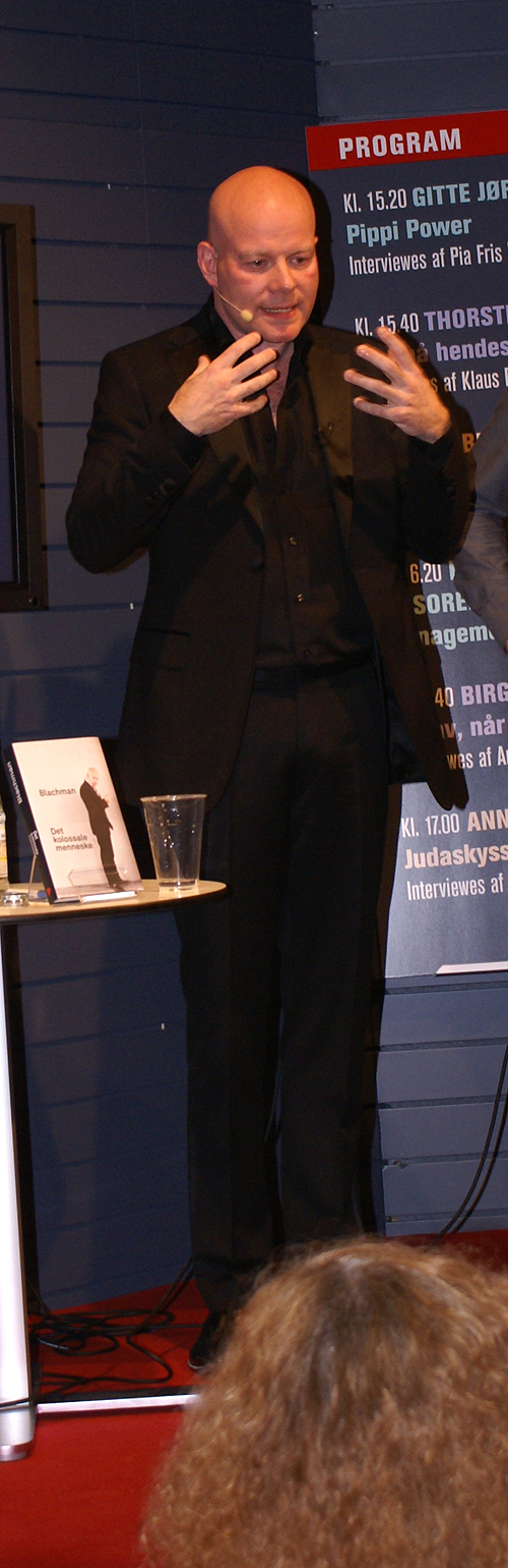 Thomas Blachman, Danish musician, composer and producer intervied at the bookfair Bogforum-2008.